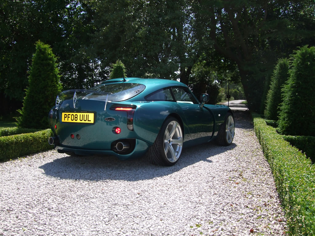 Image courtesy of TVRCC - TVR Car Club